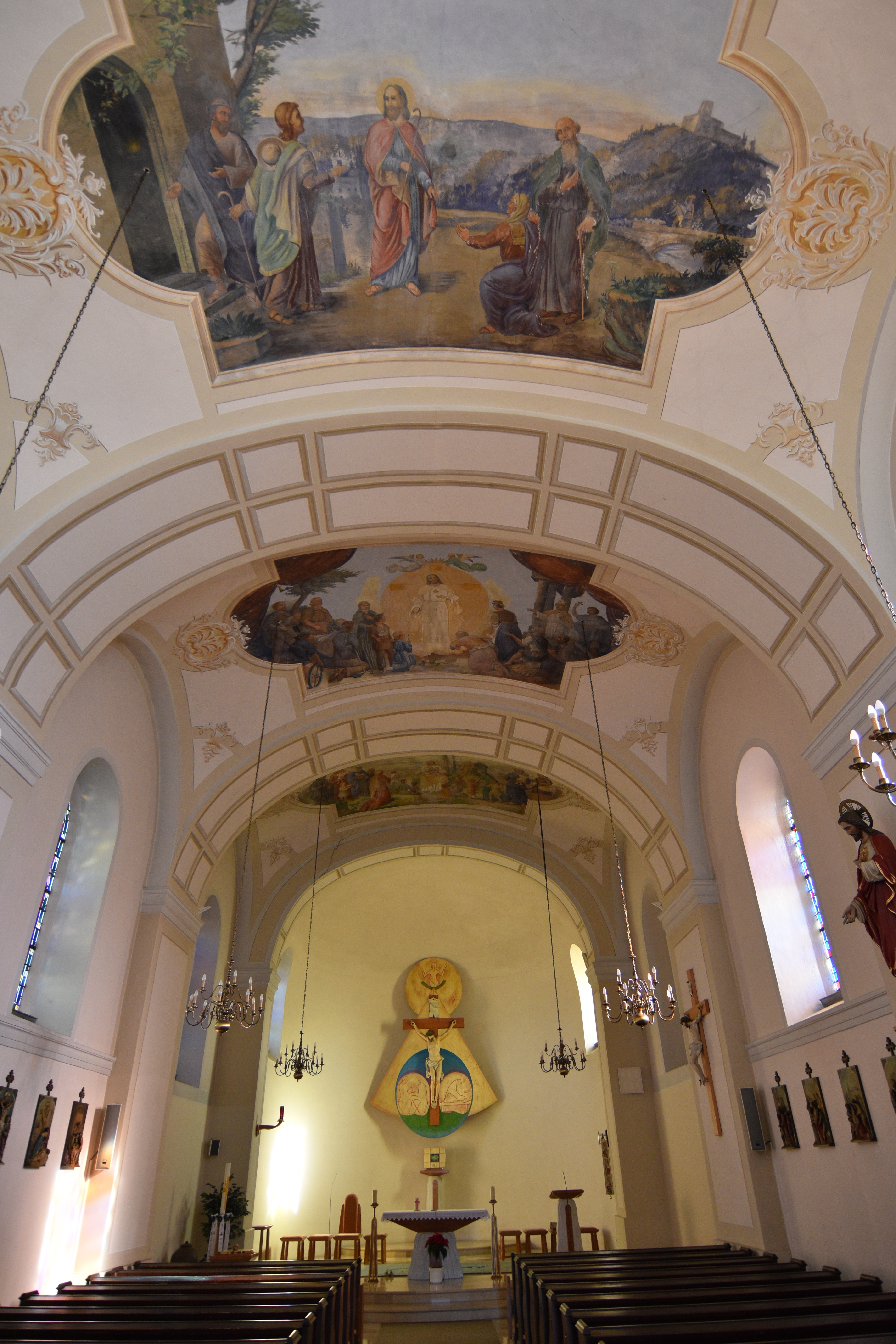 Church Heiligenkreuz im Lafnitztal Interior